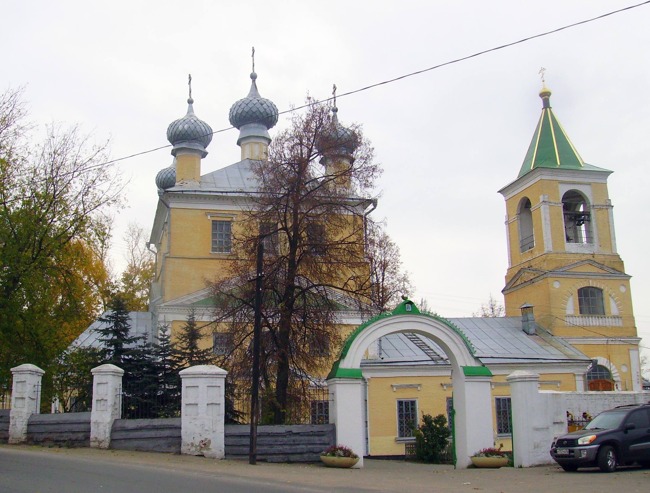 Nizhny Novgorod. Trinity Church in Vysokovo